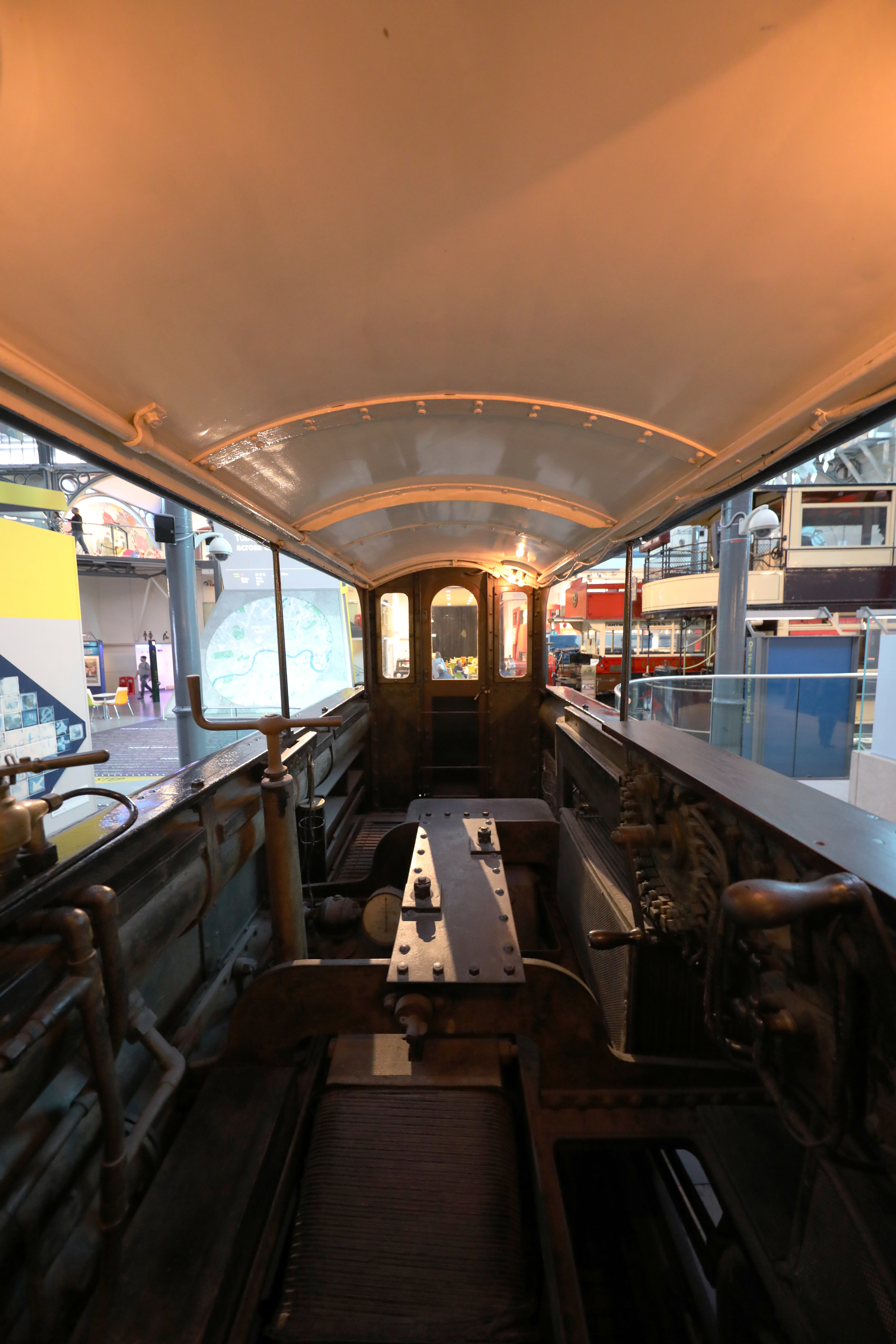 The interior of City & South London Railway locomotive number 13 at London's Transport Museum